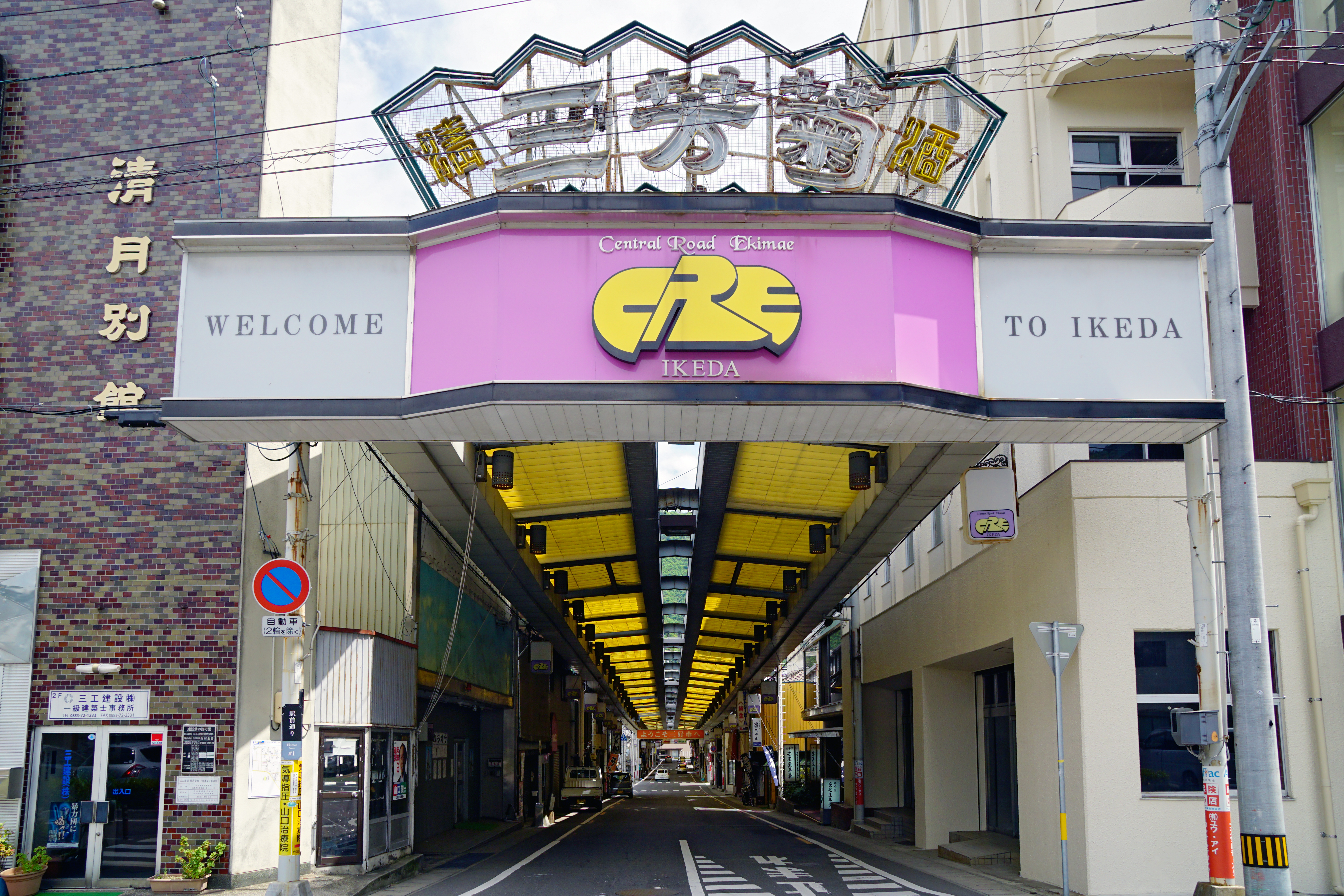 The Central Road Ekimae Ikeda in front of Awa-Ikeda Station, Miyoshi, Tokushima prefecture, Japan.